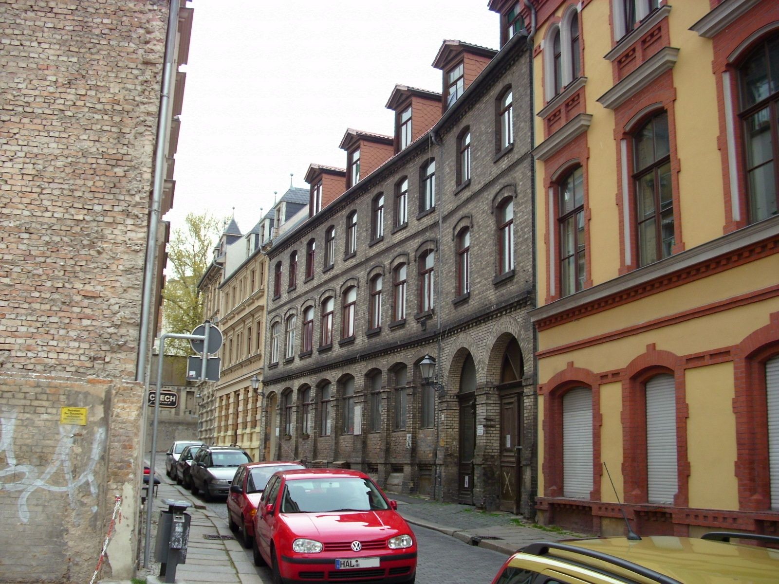 First location of the Tholuckkonvikt (Mittelstraße 11, 06108 Halle; the old building itself does not exist any more).